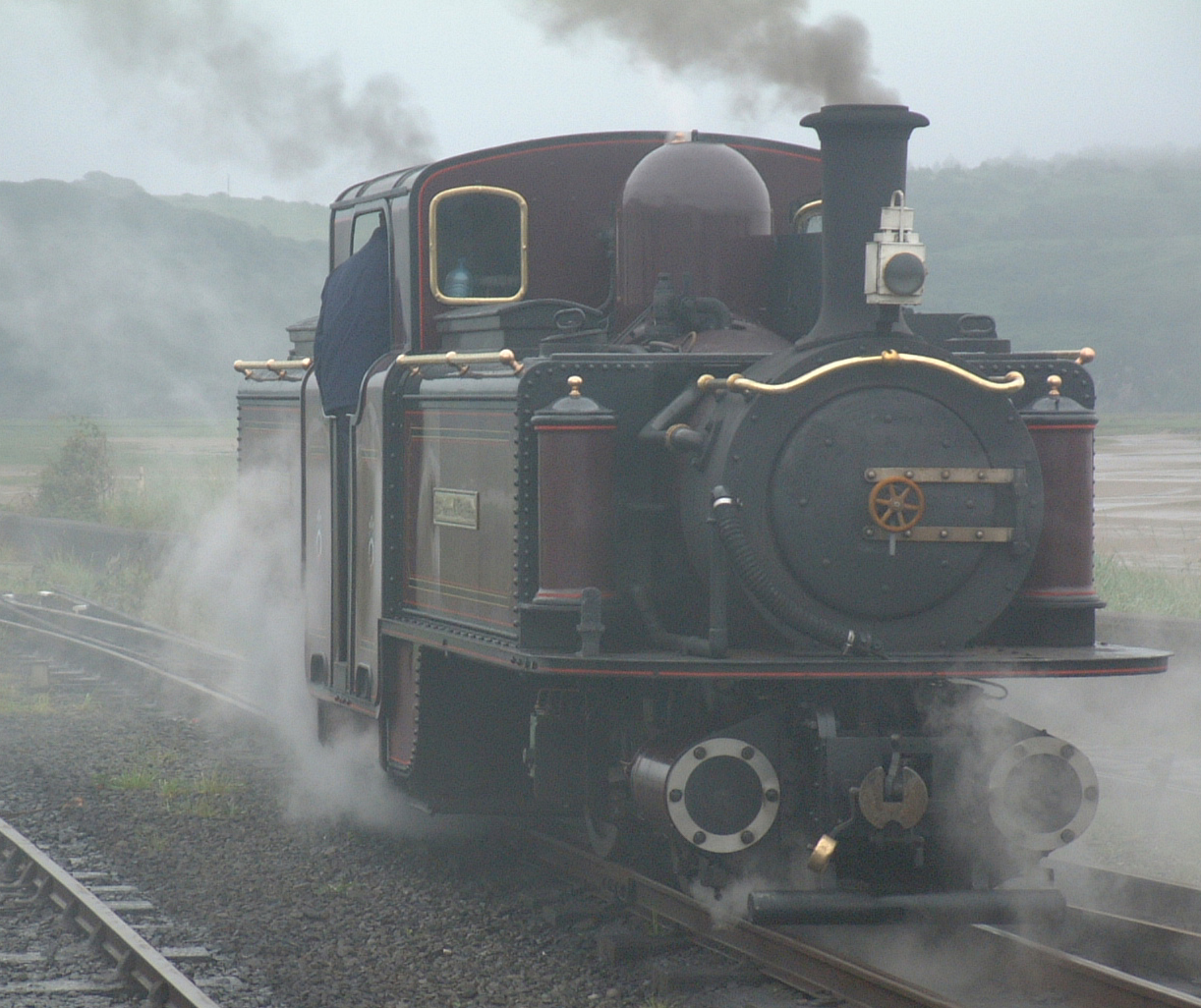 Ffestiniog Railway locomotive Merddin Emrys at Porthmadog Harbour railway station.